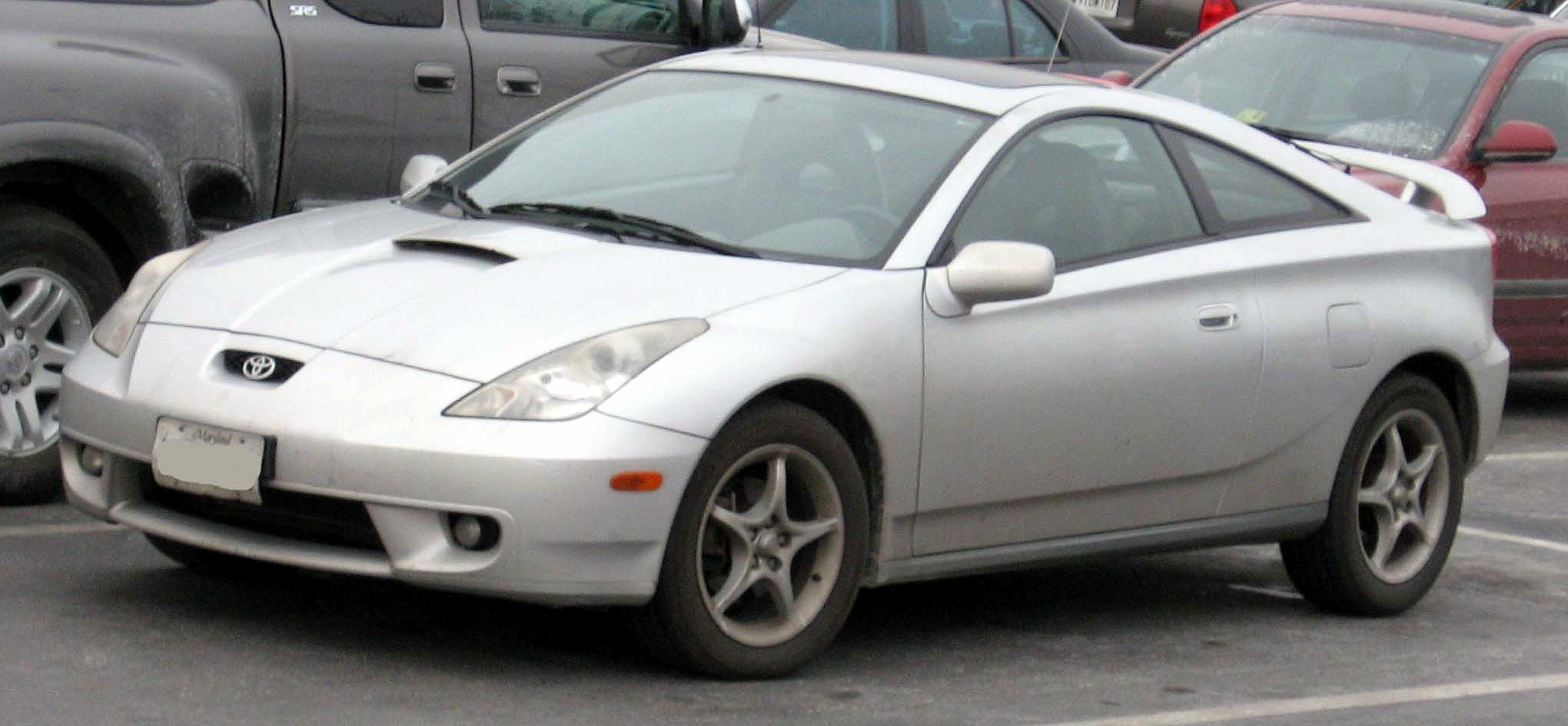 2000-2005 Toyota Celica GT-S (ZZT231) shown in Liquid Silver Metallic (colour code 1D0) photographed in USA.